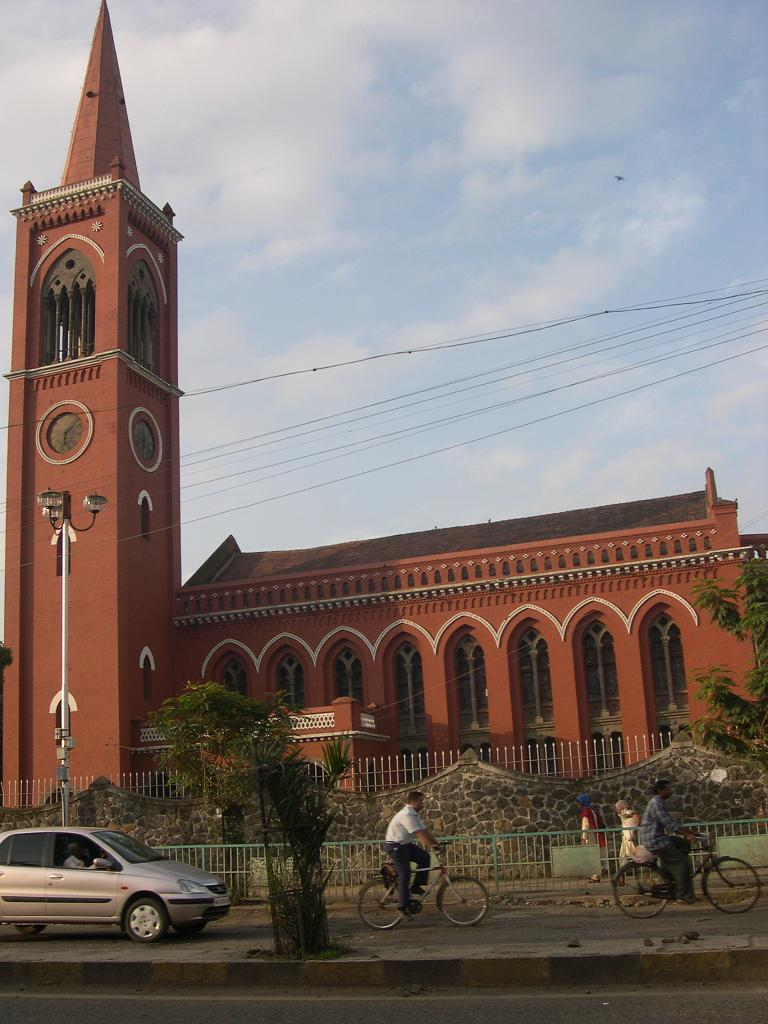 The Red Church (Lal Deval) which is actually a Synagogue. A red brick and trap stone building of English-Gothic style, the Lal Deval was built by the famous David Sassoon in 1867. This picture also dipicts the irony of the fact that Pune which was known as the “City of Cycles” is now being replaced by Automobiles. The Indica Car and all TATA vehicles are manufactured and assembled in this very city.